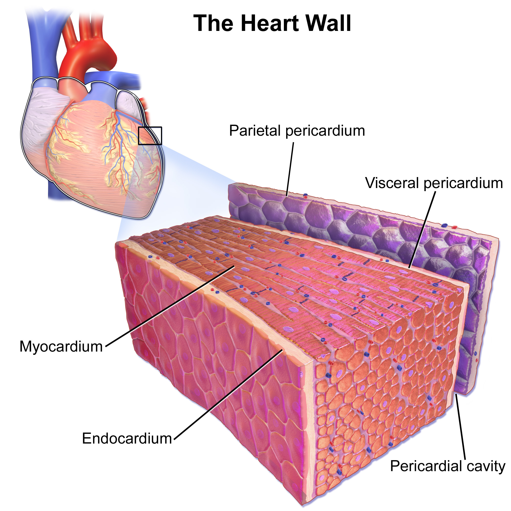 Heart Wall. See a related animation of this medical topic.